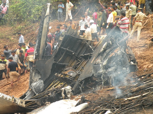 Bajpe plane crash site photo